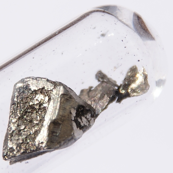 1 cm big piece of pure lanthanum.